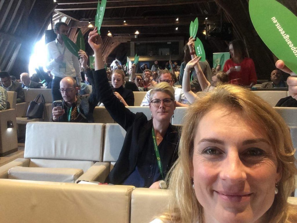 Selfie of Magdalena Davis, deputy chairman of the Czech Green Party, at the Council of European Greens between 18 and 20 May 2018.